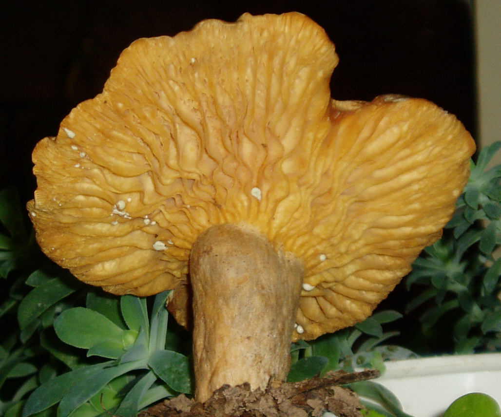 A view of the gills of Lactarius pyrogalus, originally found under hazel trees. Photographed in Istanbul, Turkey.